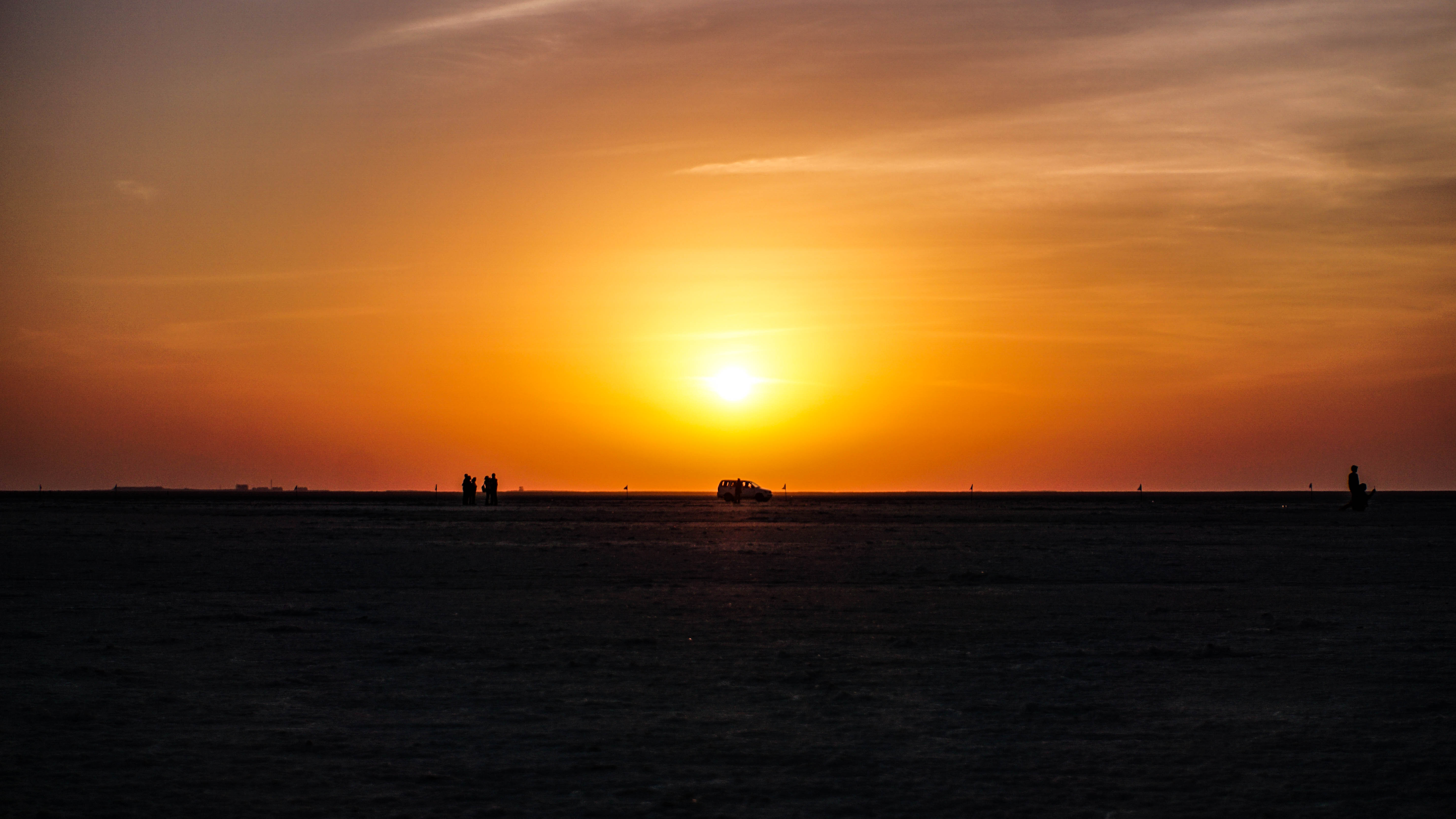 What sunset looks like at Rann of Kutch, a beautiful moment to witness and capture.